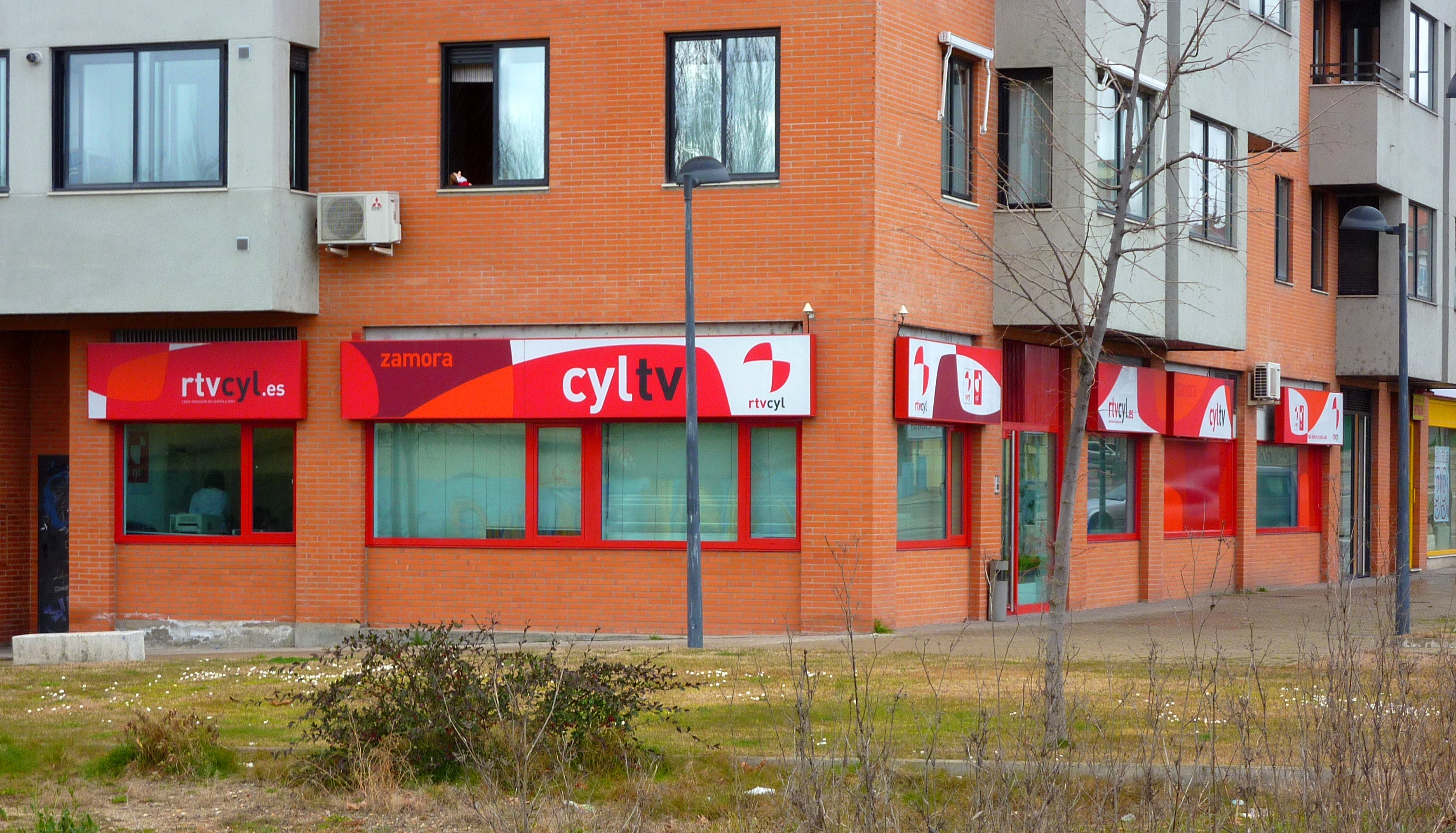 Offices of the TV channel CyLTV in Zamora, Spain.